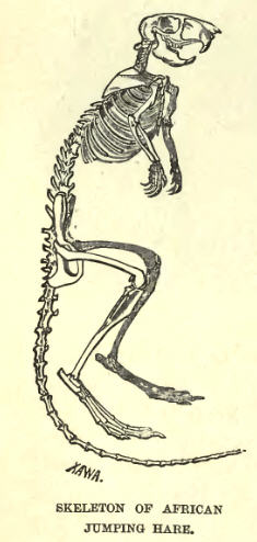 Springhaas Pedetes caffer Pedetes capensis